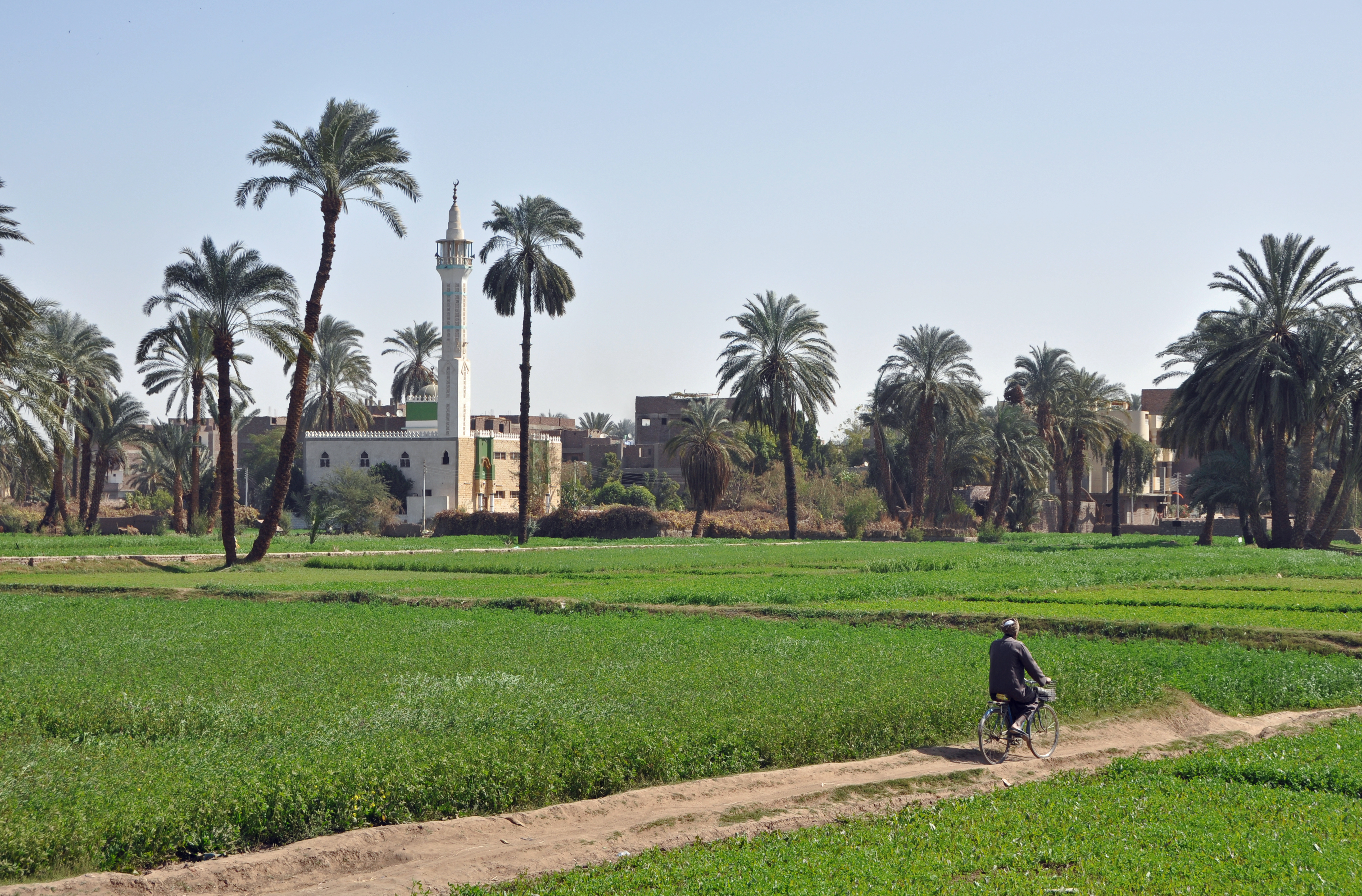 Egyptian countryside south of Luxor, Egypt. In the background: the village of Al Bayadiyah